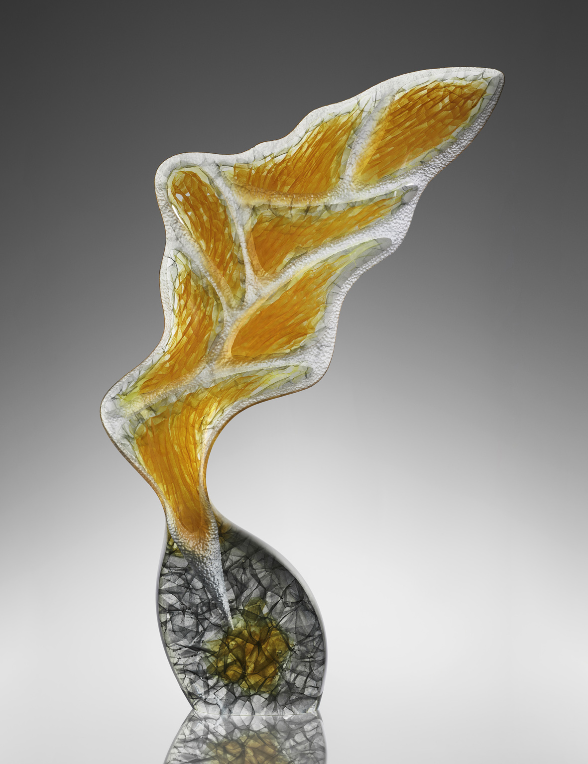 Michael Behrens, Seaform 268, 2018, 136 x 86 x 19 cm, photo Norbert Heyl